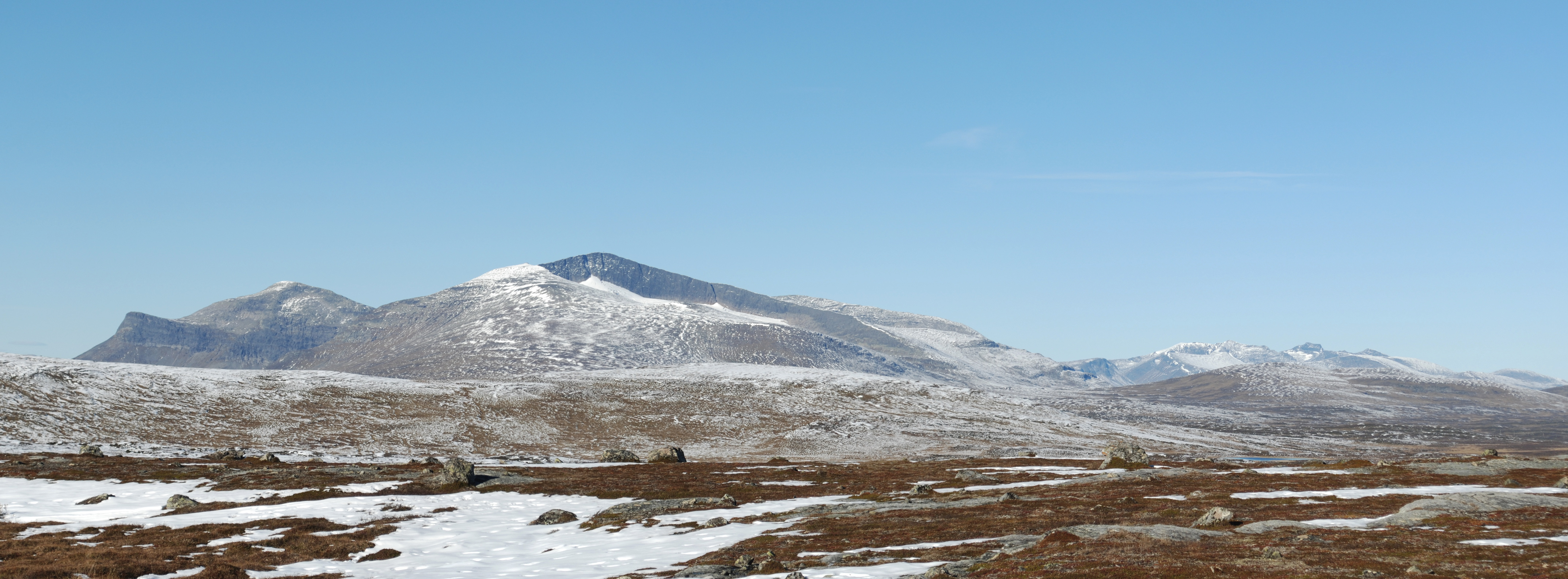 Helags and Sylarna. Panorama from Torkilstöten, Ljungdalen.